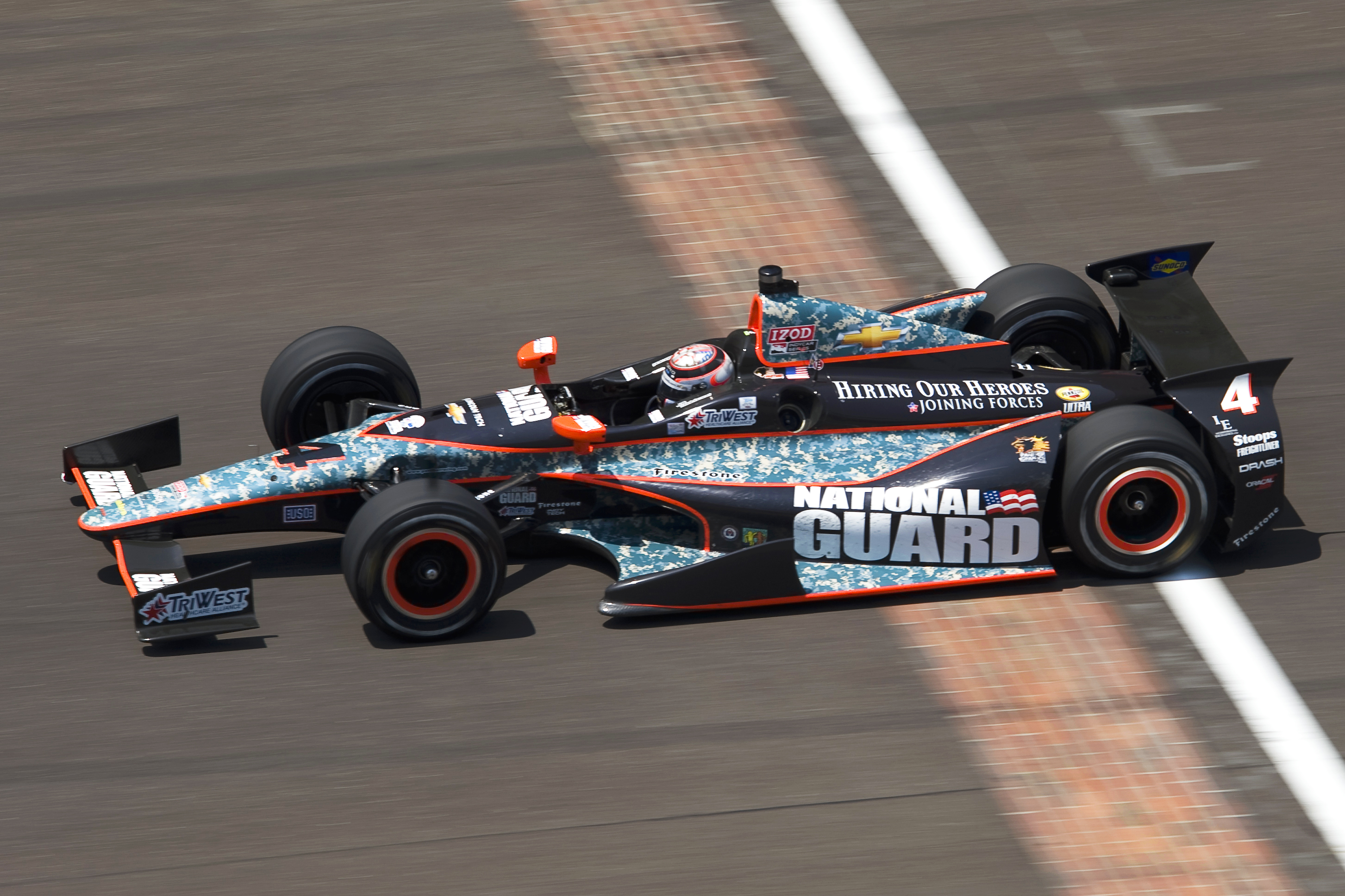 National Guard Sponsored No. 4 Indy Car machine Panther Racing Driver J.R. Hildebrand speeds past the "Yard of Bricks" at the Indianapolis Motor Speedway during the 96th running of the Indianapolis 500, May 27, 2012.